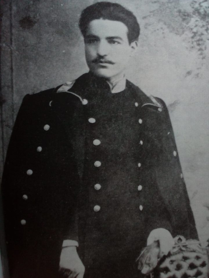 Grigorije Bozovic in Moscow